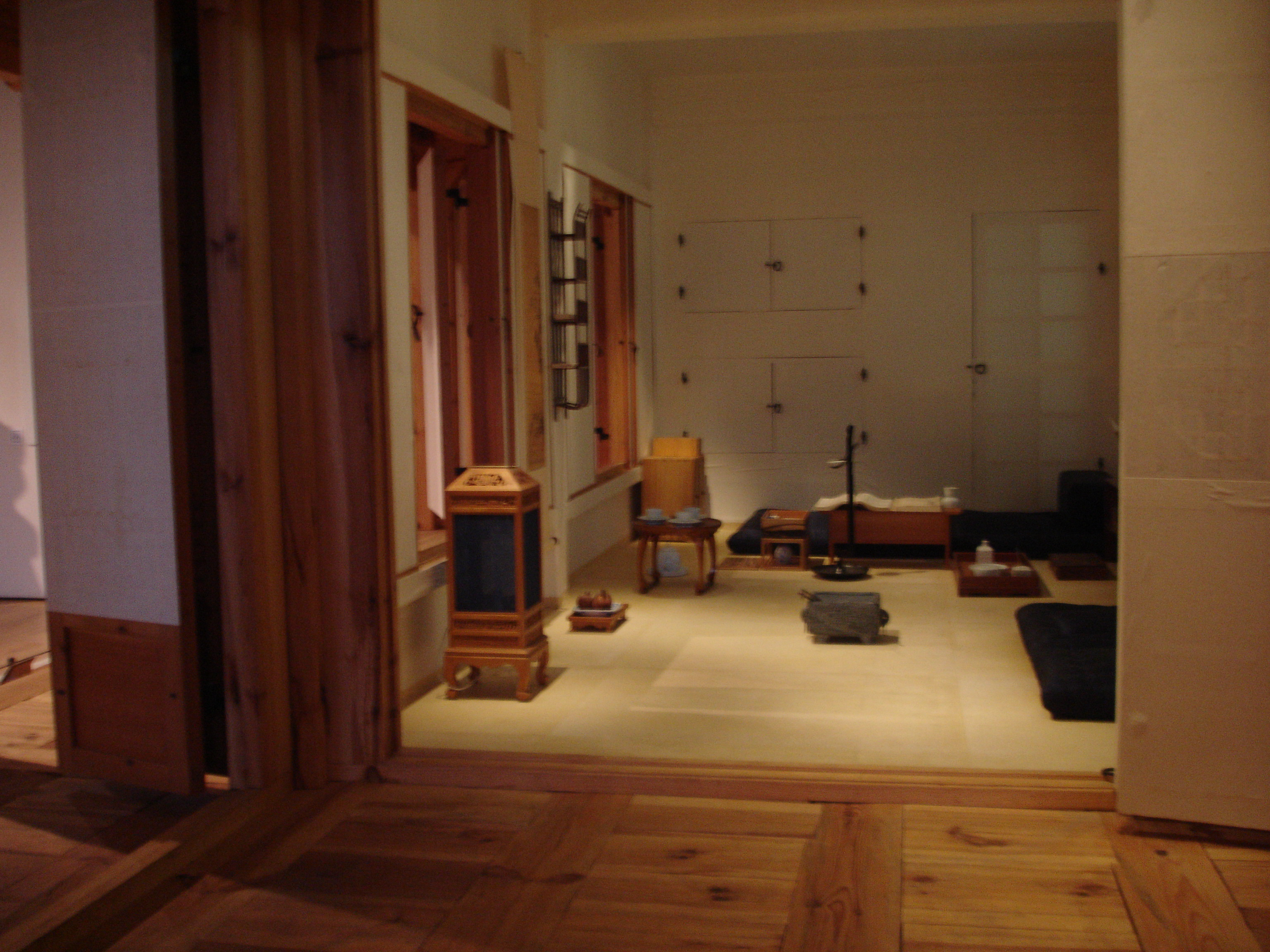 Own Work 2007 British Museum Department of Asia